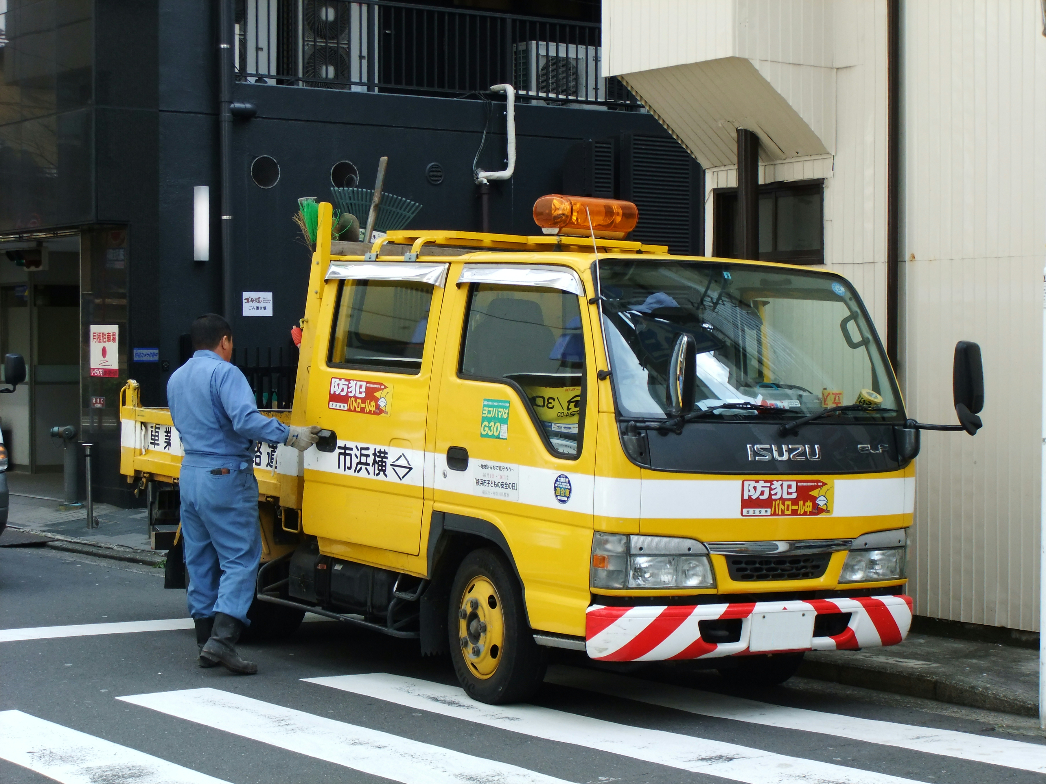 ISUZU, ELF-KR,（It is called REWARD or N-series excluding a Japanese market.）, Road Maintenance Vehicle